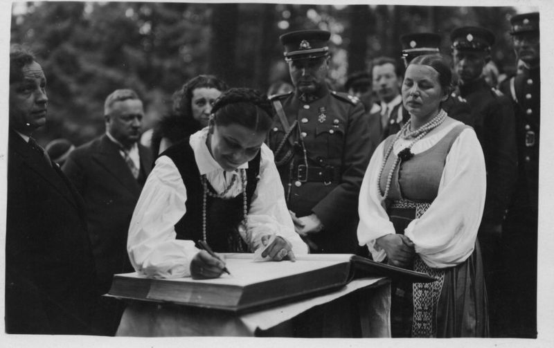 A woman signs in the Eternal Book of Rambynas. Man behind her is Erdmonas Simonaitis; woman to her right is Elzė Jankutė; between the women is Governor Jonas Navakas.